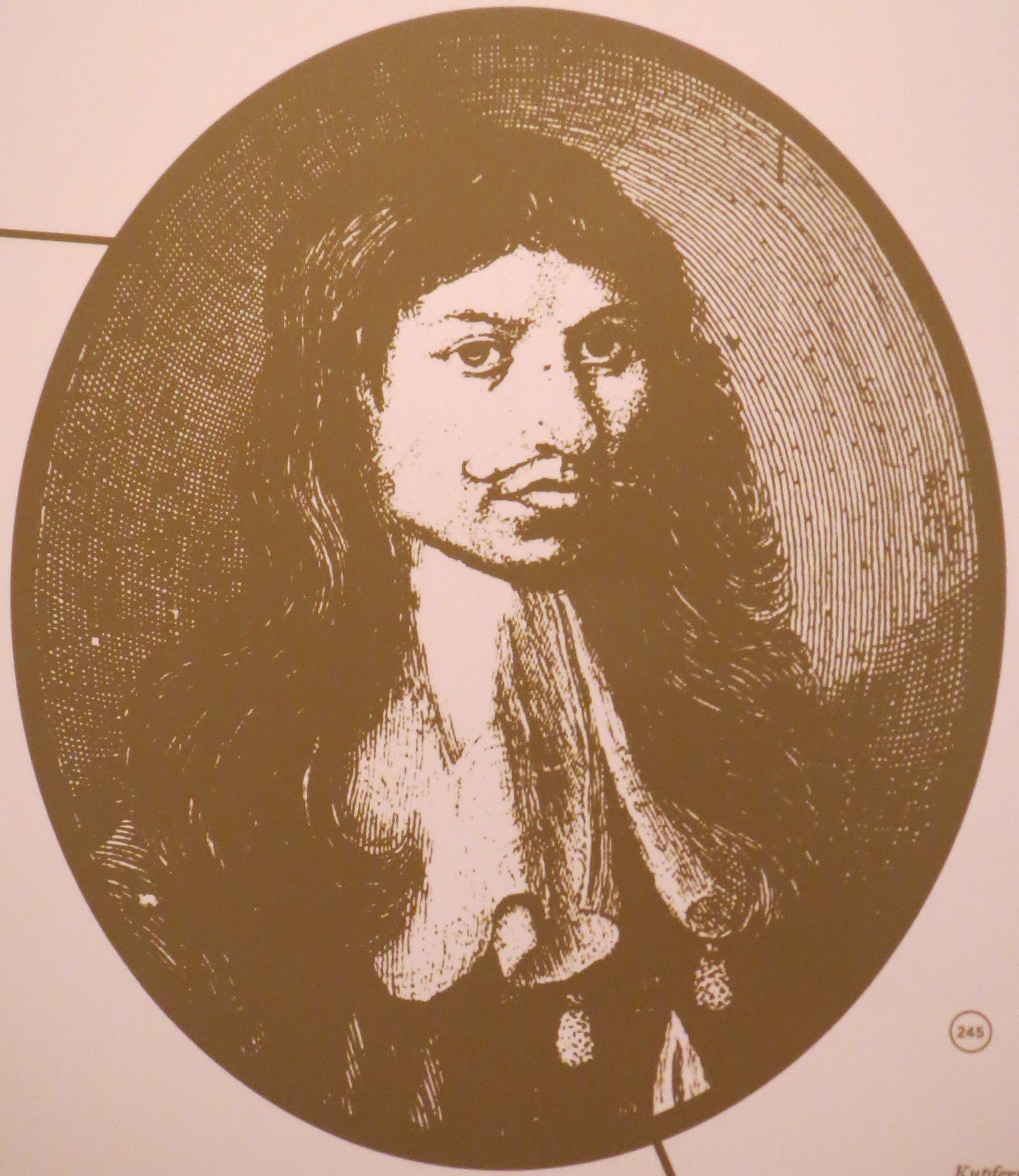 Johann Theile, copper engraving in the collection of the Stadtbibliothek Lübeck, this version photographed in the Heinrich-Schütz Haus, Weißenfels